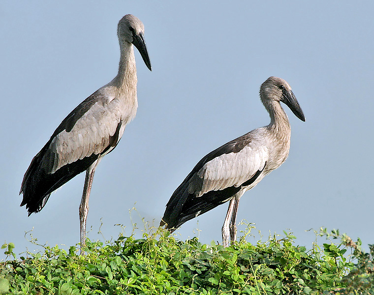 Asian Openbill Anastomus oscitans in Uppalapadu, Andhra Pradesh, India.